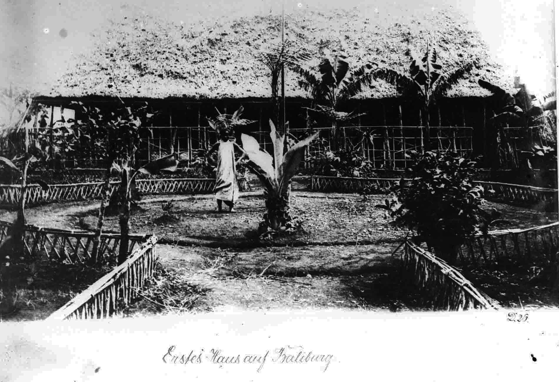 First House of Baliburg (Cameroon)